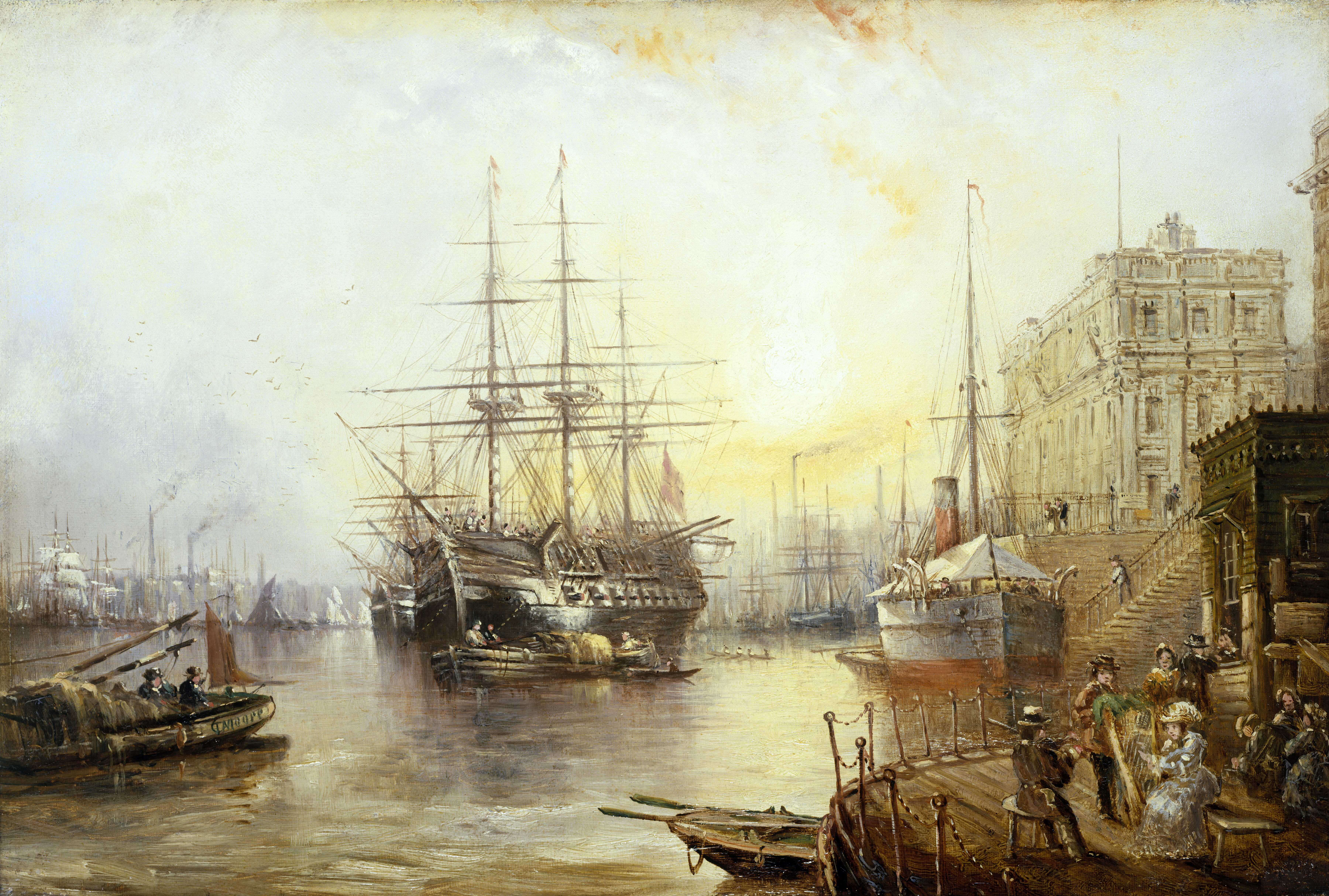 'Warspite' (a former two-decker reduced to a frigate) was a training ship for the Marine Society from 1862 but, until lost to a fire in 1876, was moored off Woolwich not Greenwich: so was its successor of the same name. It is more likely that the vessel shown is the Leda-class 46-gun frigate 'Fisgard' which from 1848 was the Commodore's guardship at Woolwich but also used to train engineers up to 1862, a function taken over the the Royal Naval College at Greenwich from its inception in 1873[1]. ↑ Royal Museums Greenwich